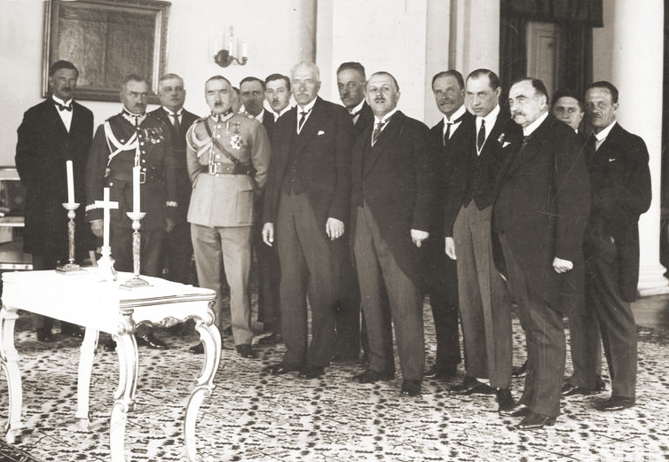 Polish Government under Prime Minister Kazimierz Bartel ( The fourth cabinet of Bartel) , June 1928